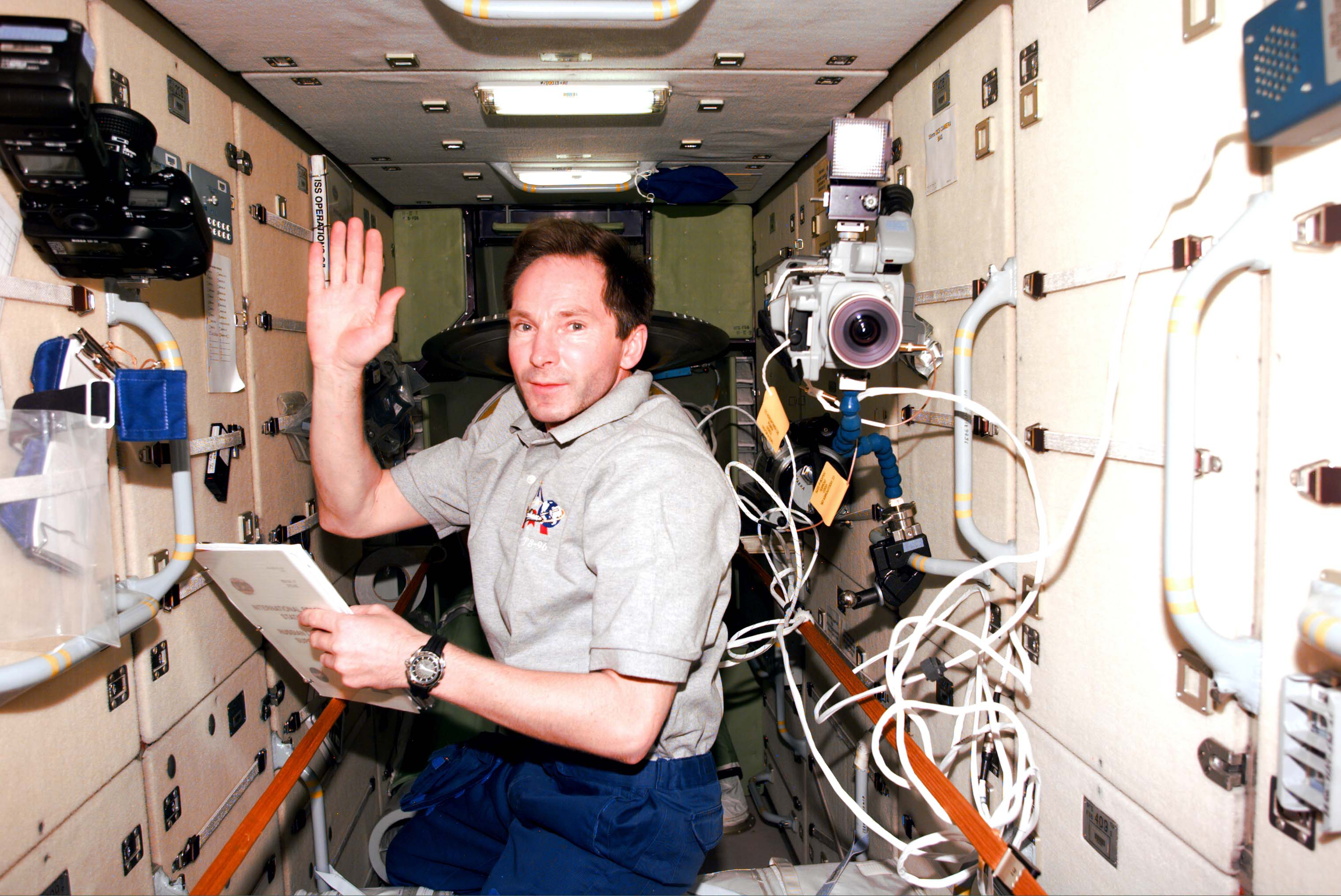 STS096-E-5123 (1 June 1999) --- Cosmonaut Valery I. Tokarev waves at a crewmate during work in the Russian-built Zarya on Flight Day 6. The photo was recorded with an electronic still camera (ESC) at 07:47:59 GMT, June 1, 1999.